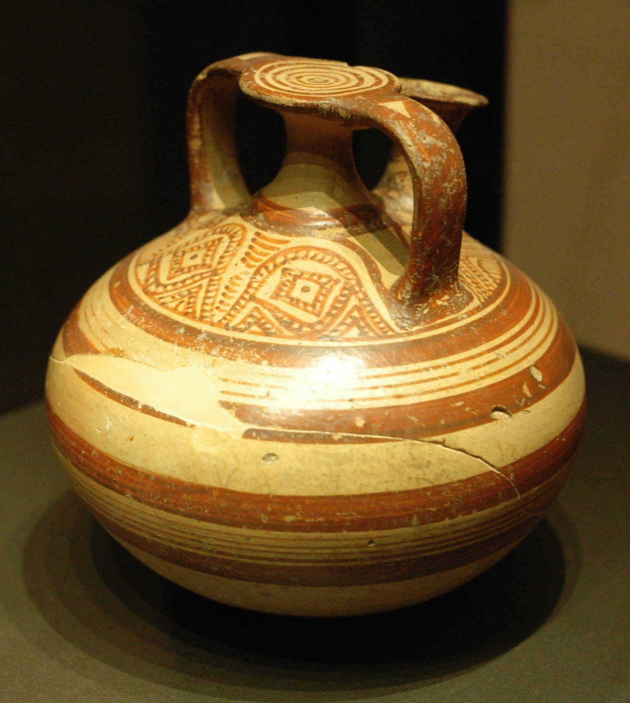 Stirrup vase from San Cosimo, Italy. Terracotta, Late Mycenaean IIIA2 (ca. 1350 BC).